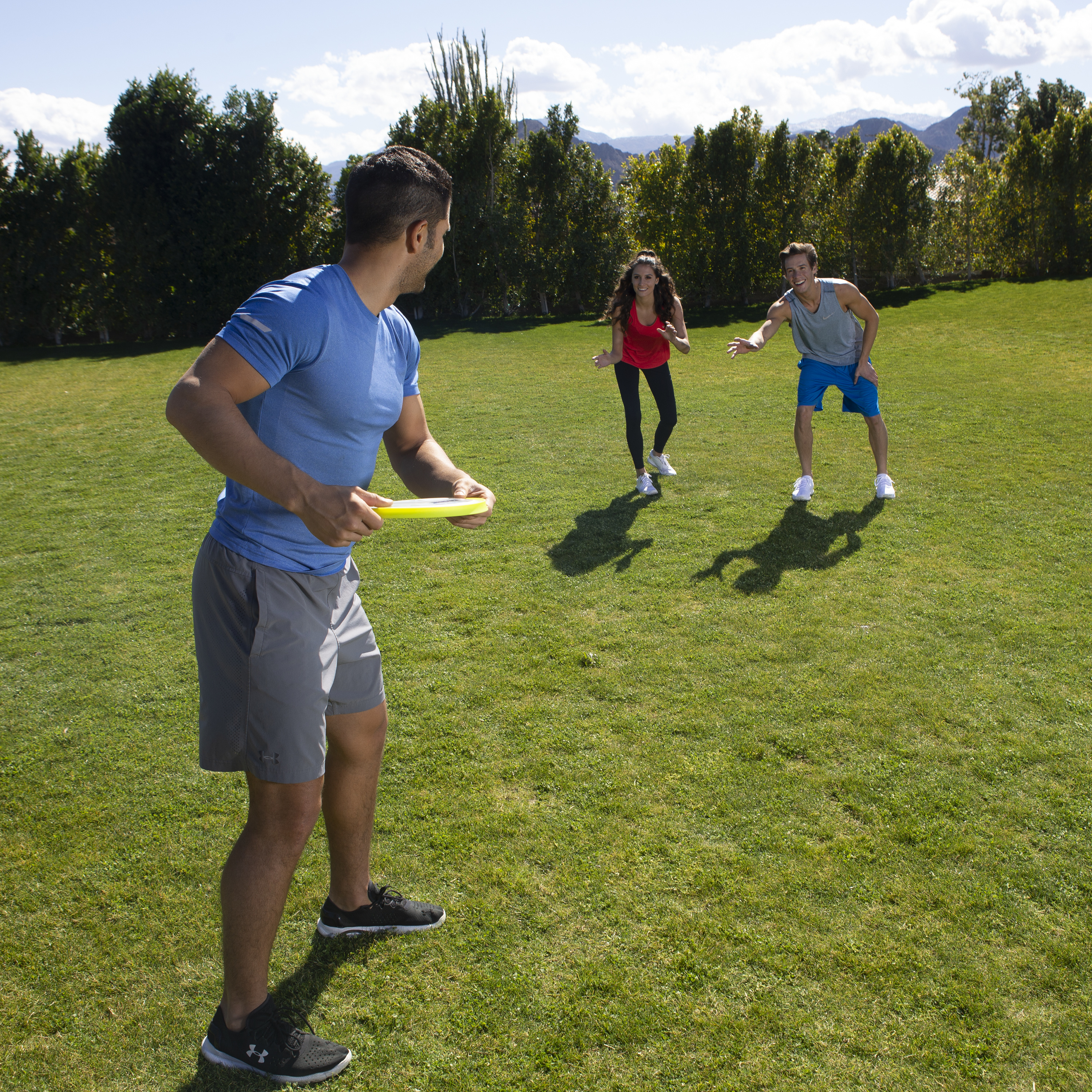 Aerobie Superdisc